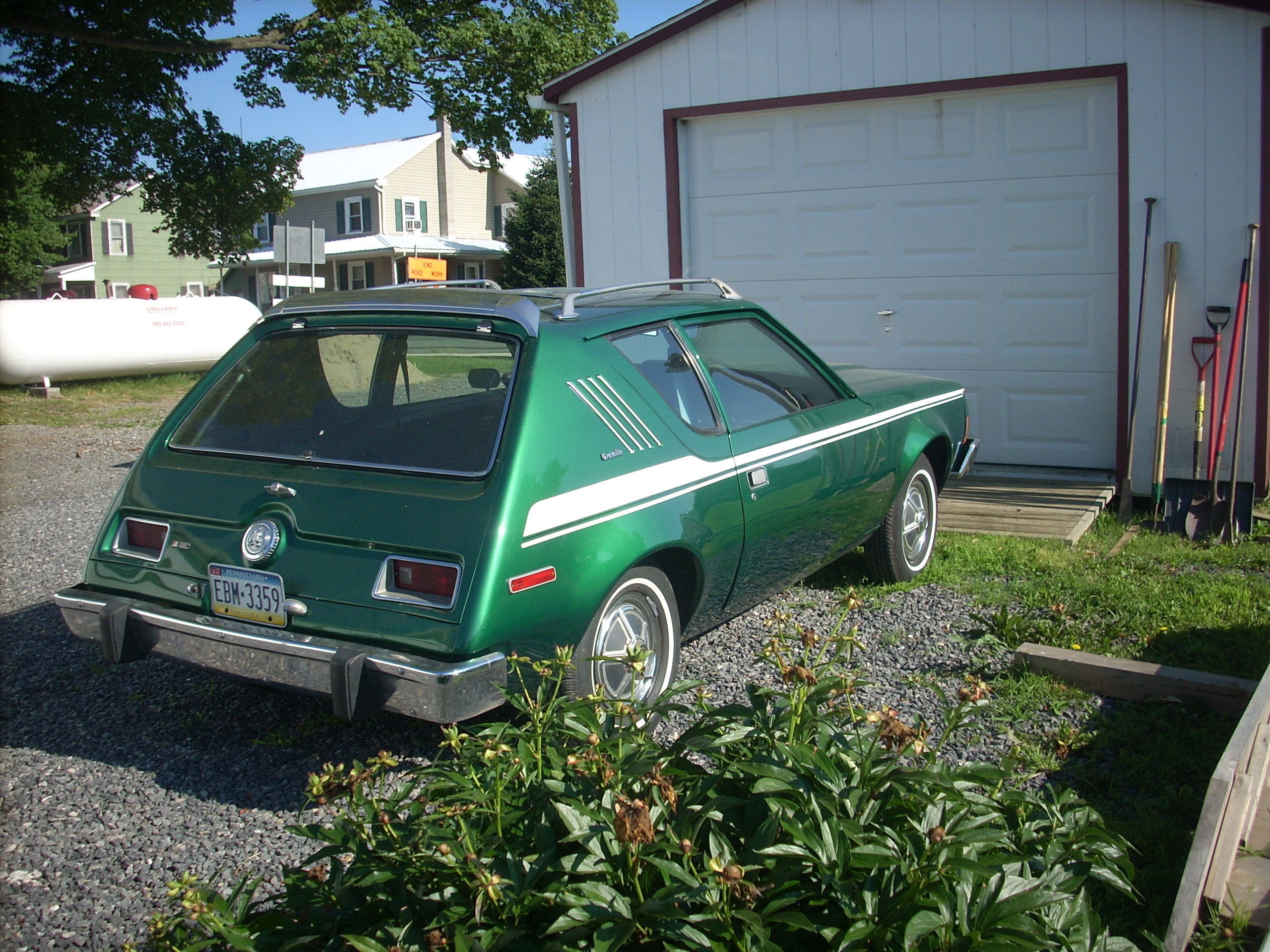 a 1975 AMC Gremlin found at Metropolitan Restoration Services in Hartleton, Pennsylvania.